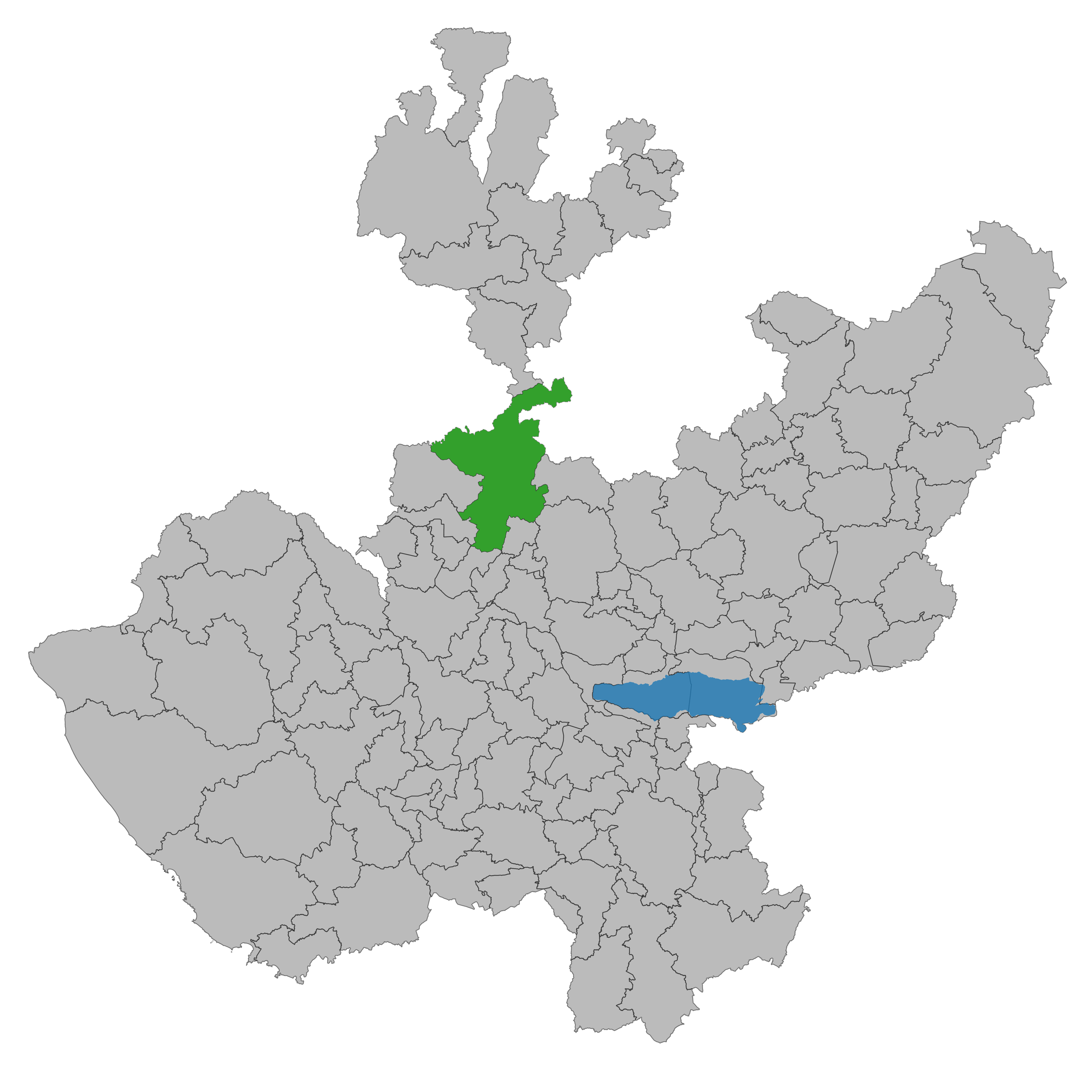 Municipality of Jalisco. Prepared with the software QGIS version 2.8.2 Wien & with information of SCINCE 2010 version 05/2013